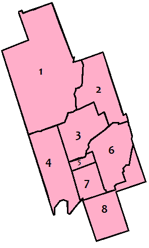 Map of Kawartha Lakes, Ontario's wards